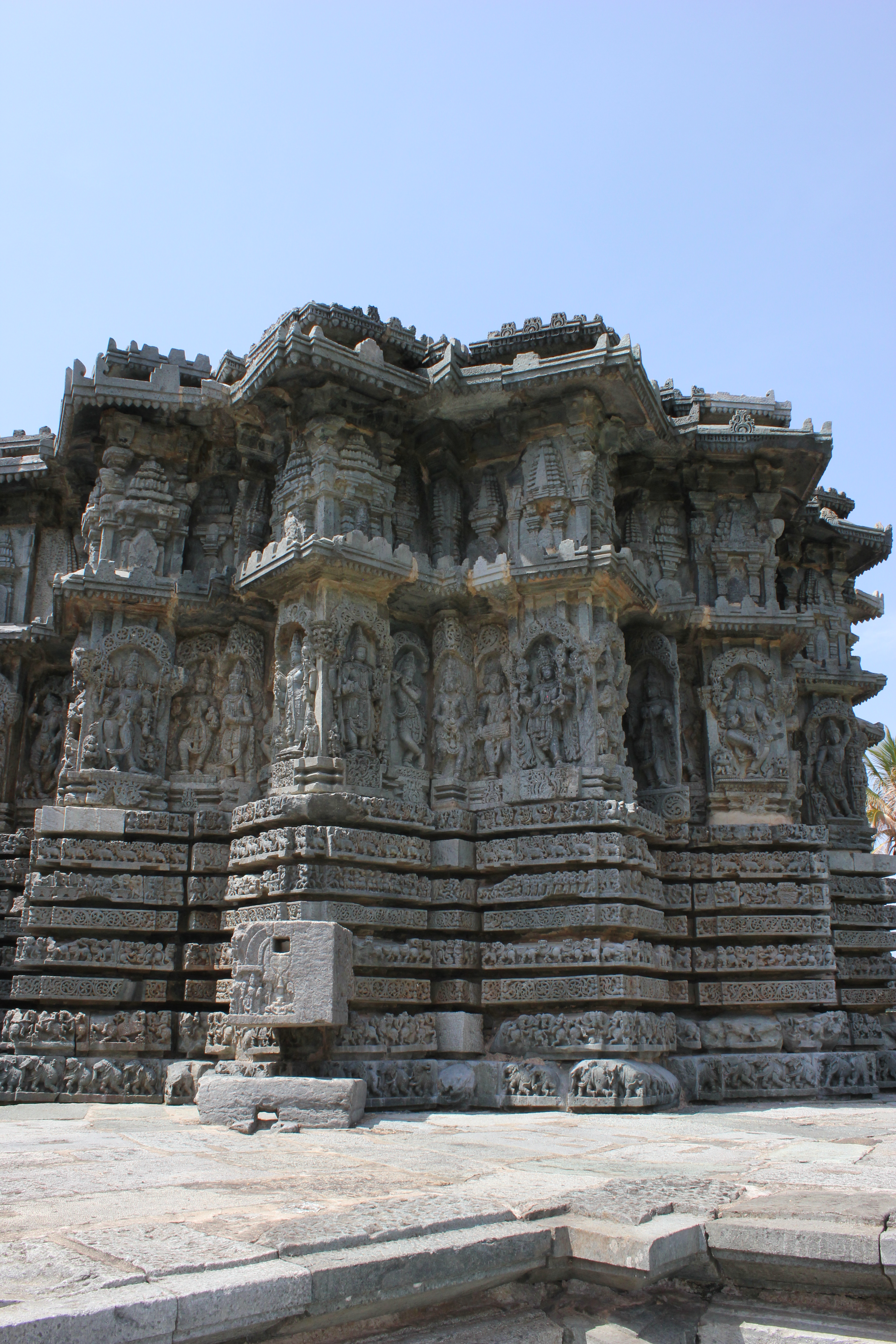 This photograph was taken at the Kedareshwara Temple (also spelt "Kedaresvara" or "Kedareshvara") in Halebidu, in the Hassan district of Karnataka state, India. The temple was constructed by Hoysala King Veera Ballala II (r. 1173-1220 A.D.) and his queen Ketaladevi.